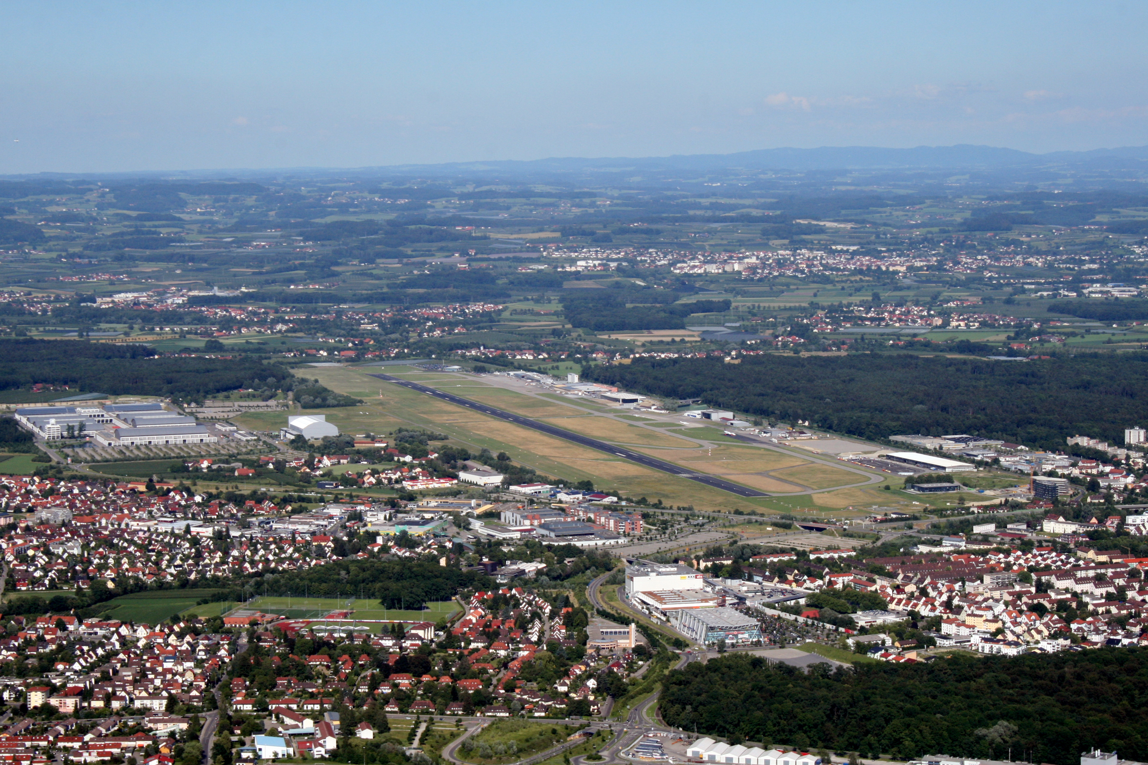 Friedrichshafen Airport (EDNY/FDH)